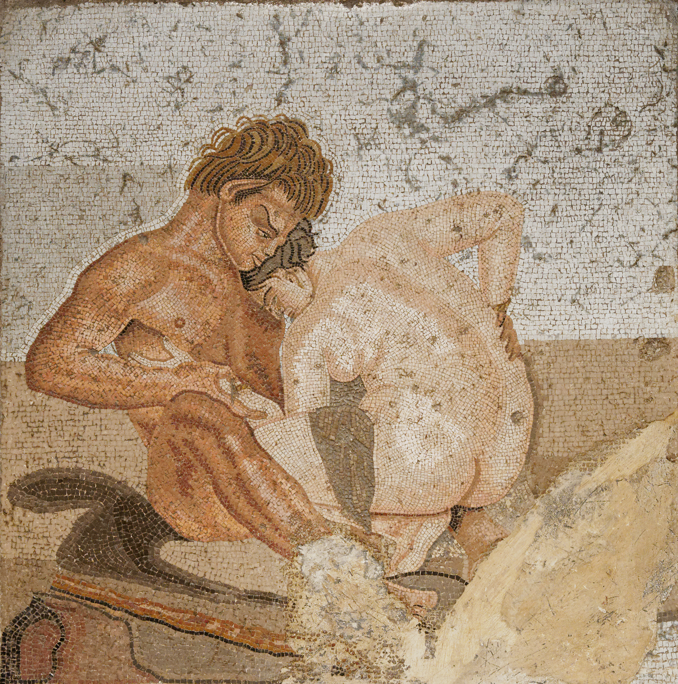 Satyr and nymph. Roman mosaic.